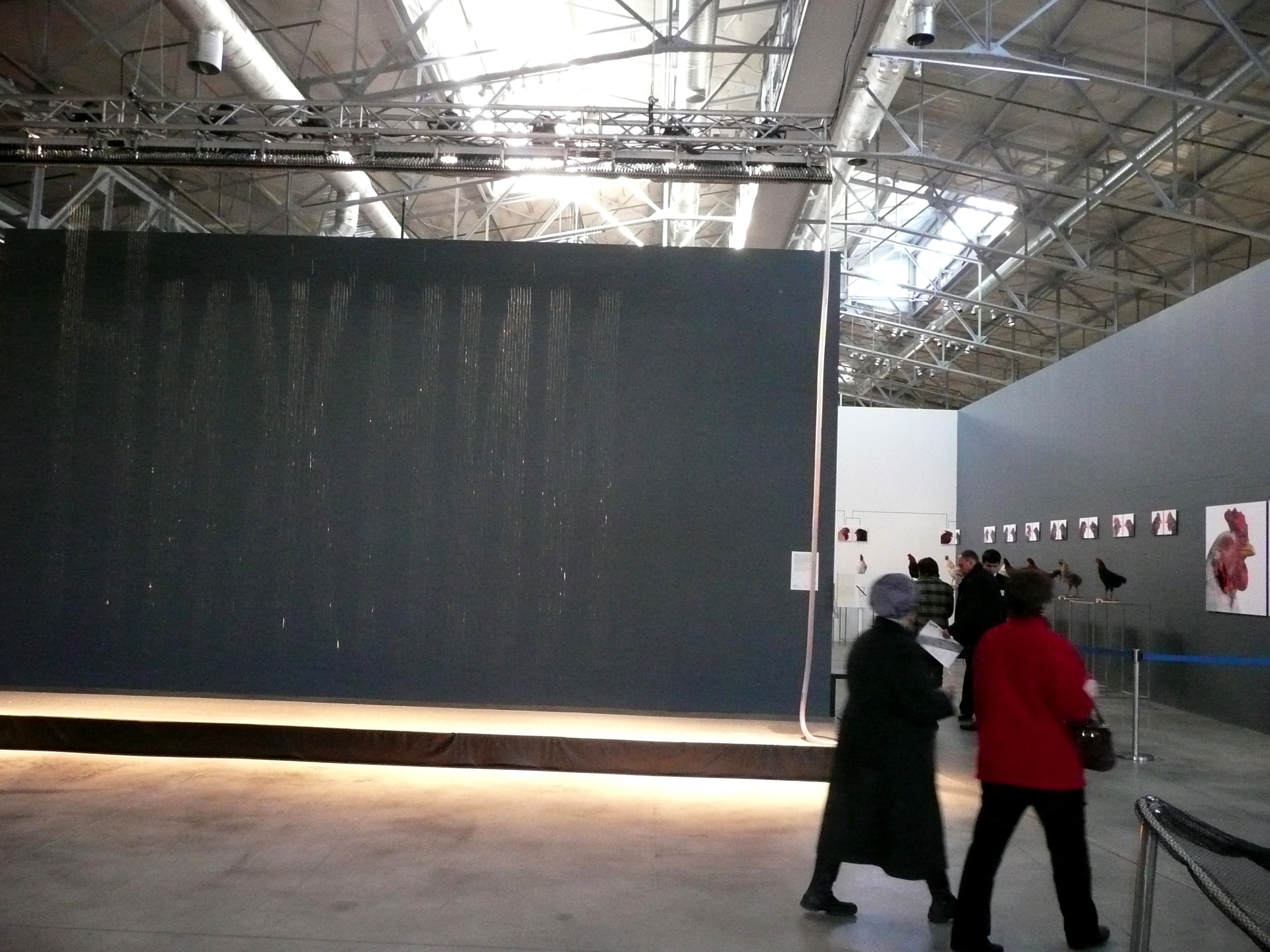 Sculpture/Fountain Bit.Fall by Julius Popp (2005) at the 2009 Moscow Bienalle of Contemporary Art.